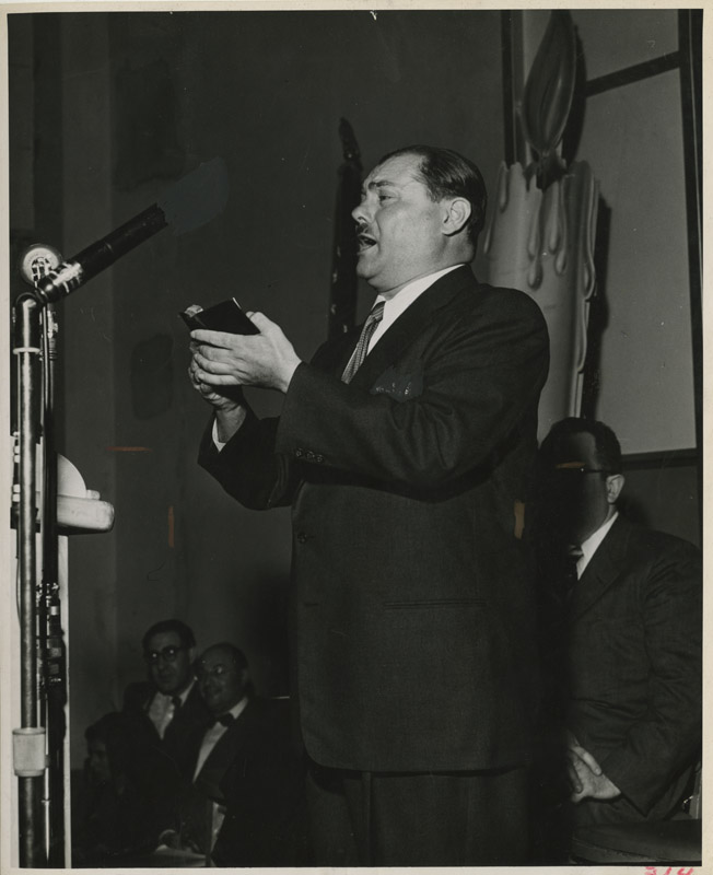 Photographer: unknown Date: 1953 Medium: Black and white photograph Repository: American Jewish Historical Society Parent Collection: American Jewish Congress Collection (I-77) Call Number: I-77-b760-f08-003 Persistent URL: Rights Information: No known copyright restrictions; may be subject to third party rights. For more copyright information, click here. See more information about this image and others at CJH Digital Collections. Digital images created by the Gruss Lipper Digital Laboratory at the Center for Jewish History.